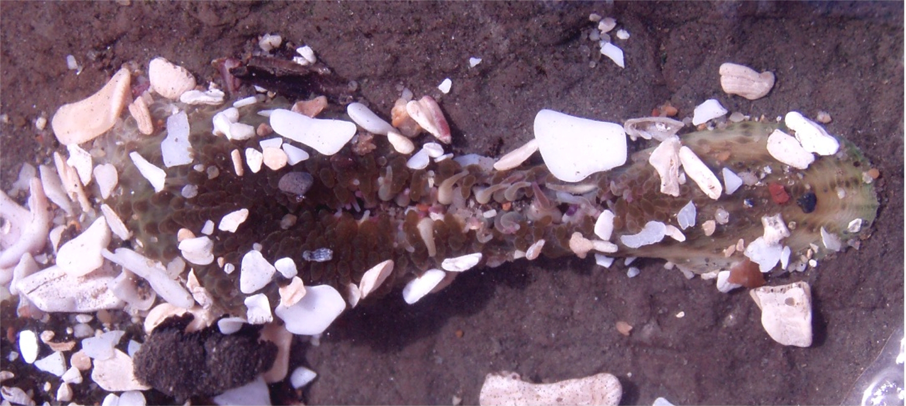 Sea Anemone,Anthopleura elegantissima is in process of cloning (longitudinal fission). In just a few few hours (or days) later, instead of one unit there will be two. The small pieces of shells, which are attached to the sea anemone are used for Camouflage.